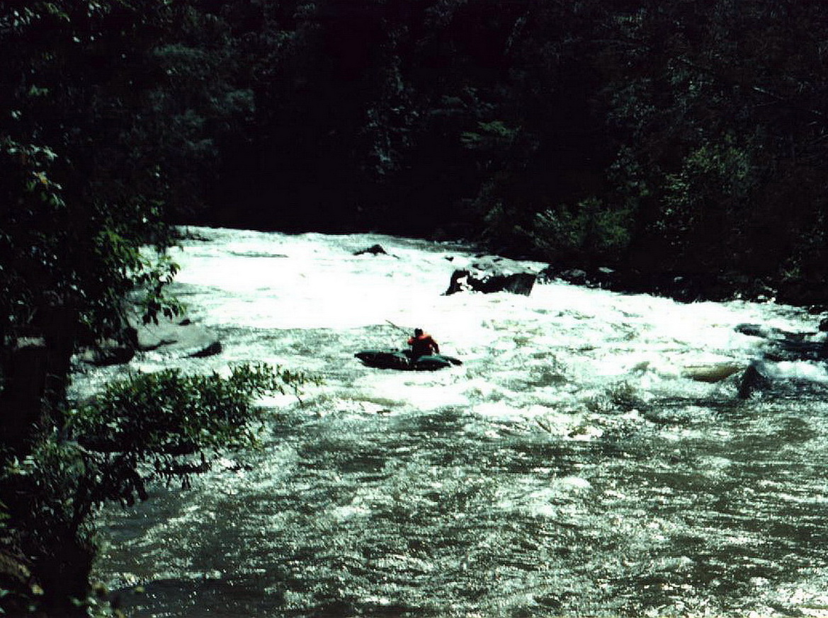 Indonesia (New Guinea Island, rafting on Kemabu River)